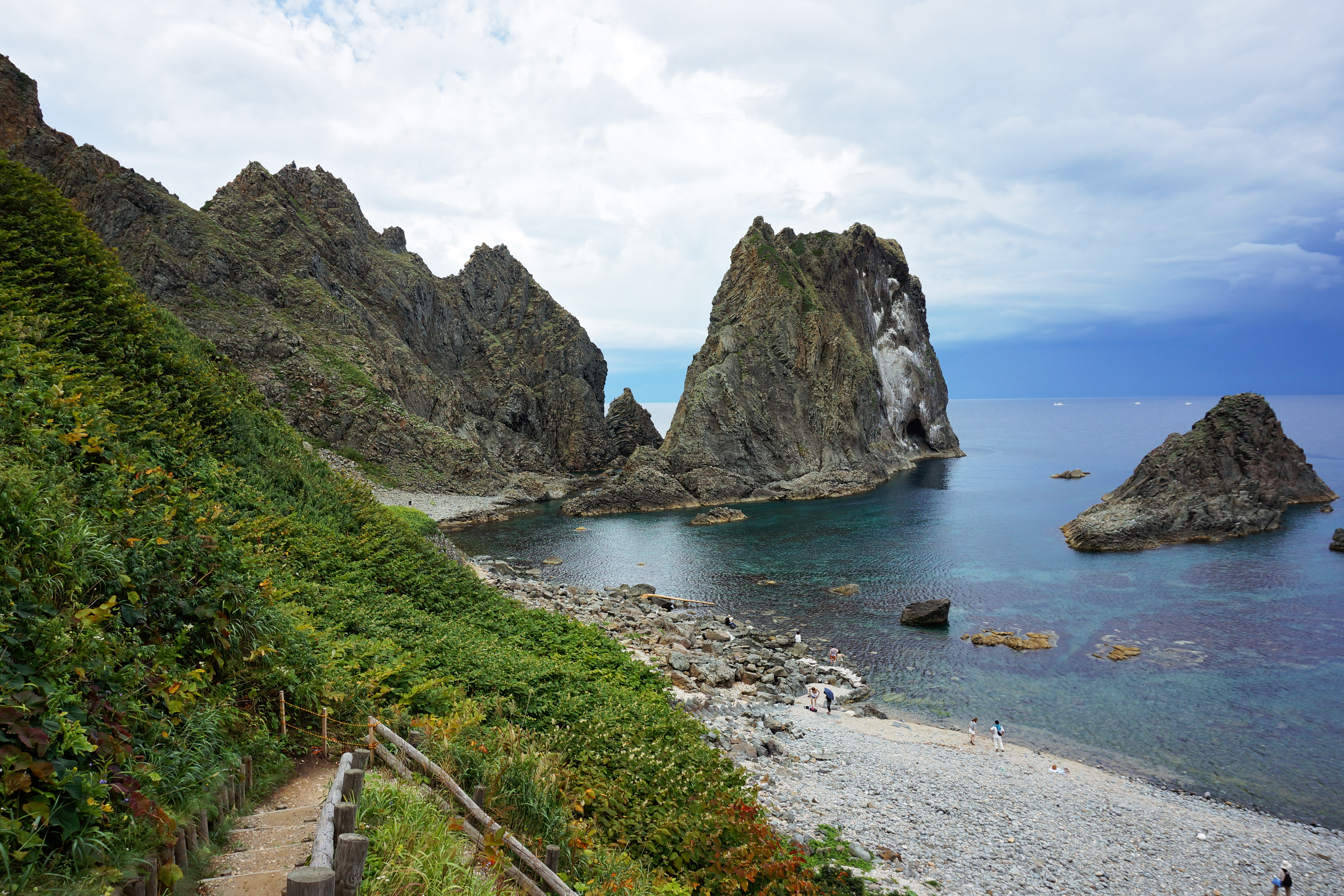 Shimamui Coast in Shakotan, Hokkaido prefecture, Japan.